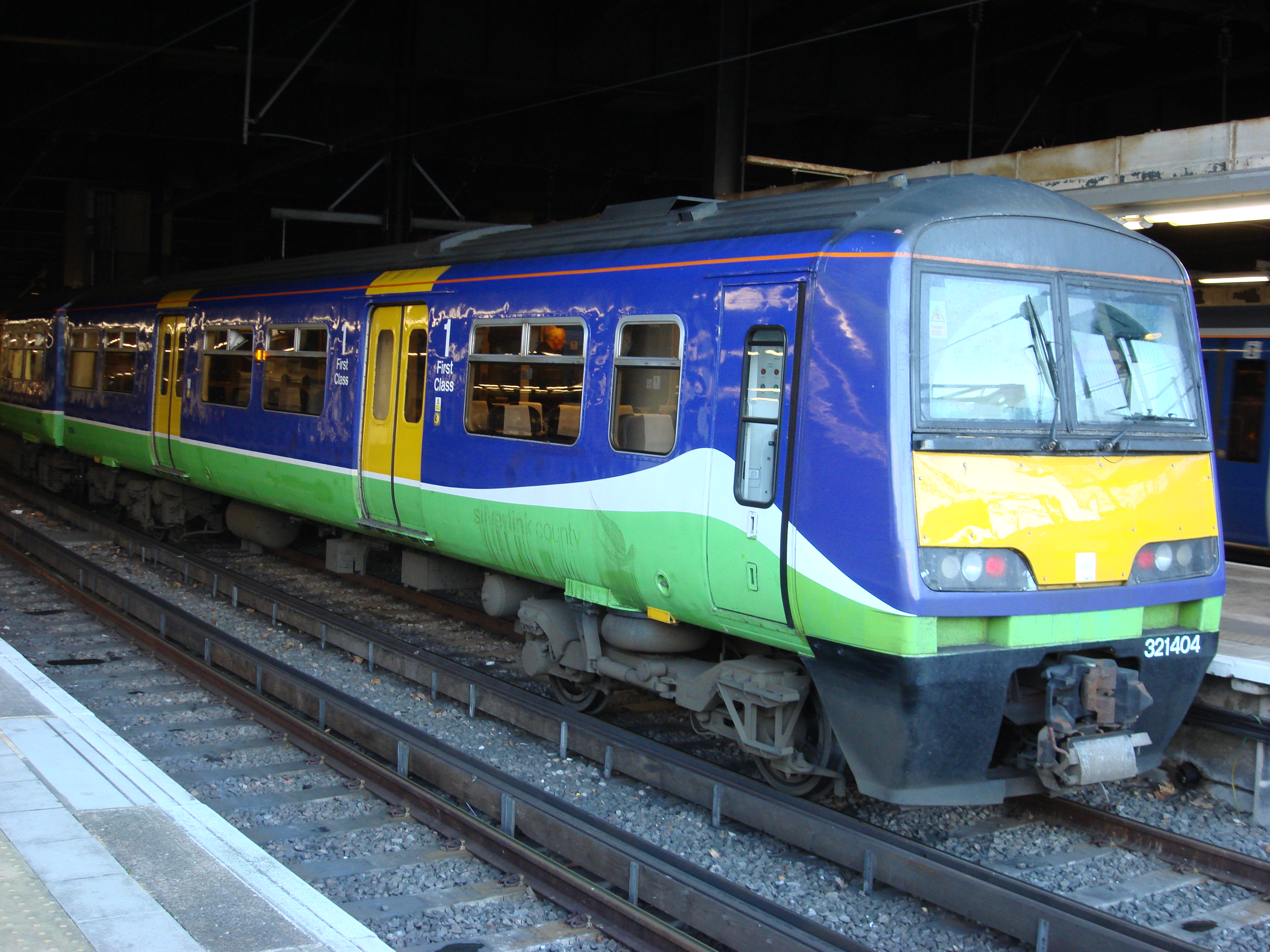 321404 at Euston